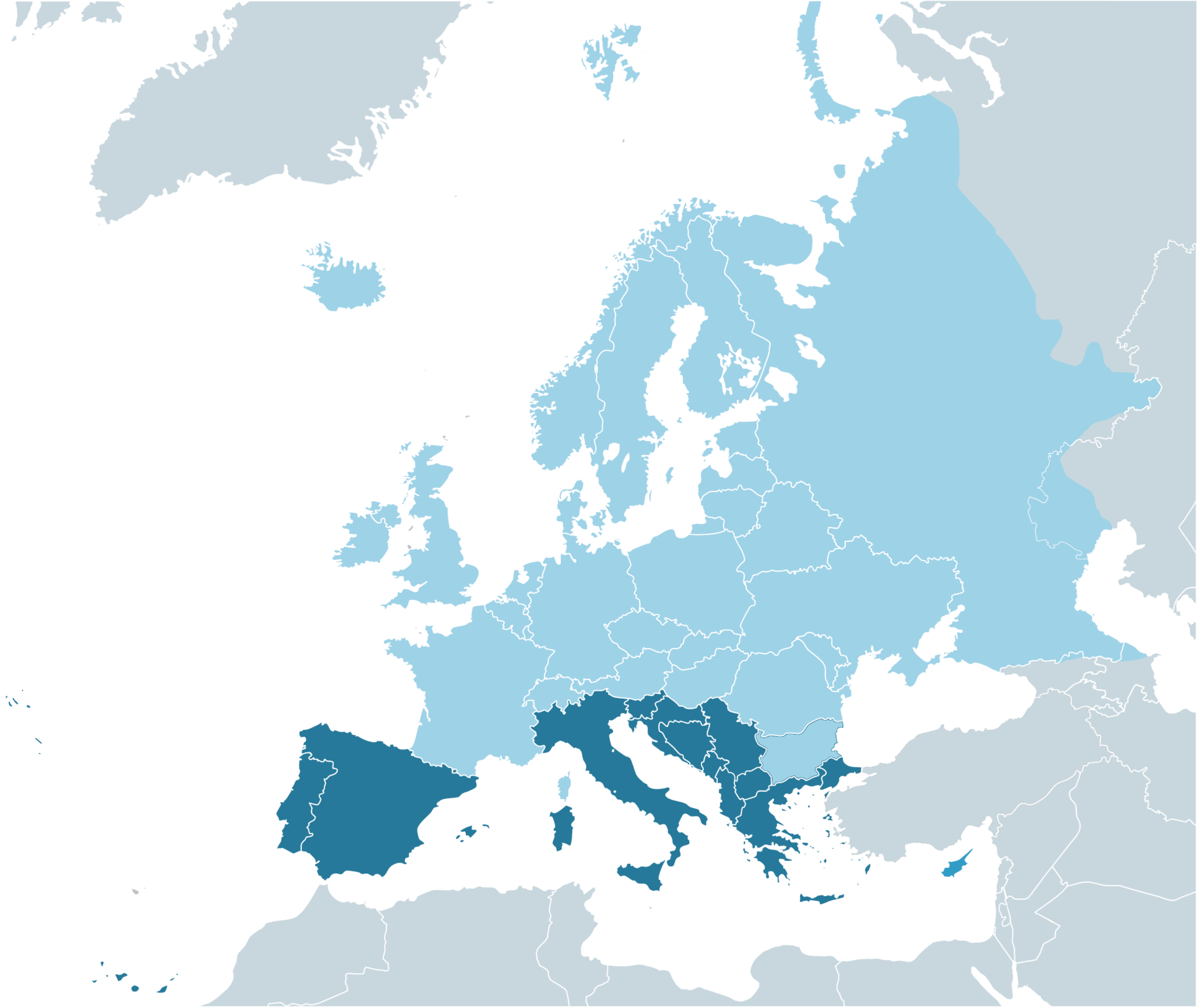 Southern Europe (dark blue) shown within Europe (light blue)